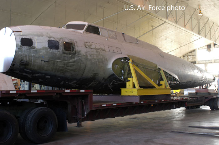 B-17D "The Swoose" 40-3097